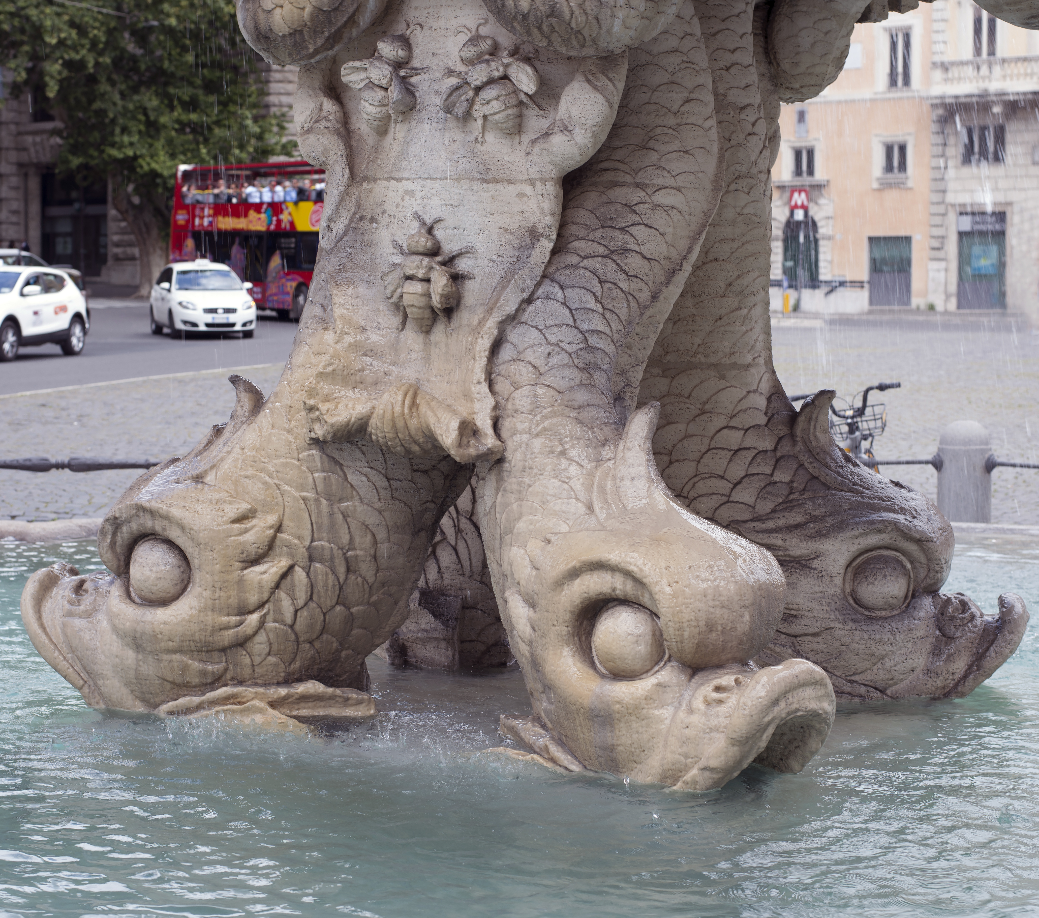 Sculptures of dolphins in Fontana del Tritone (Rome)